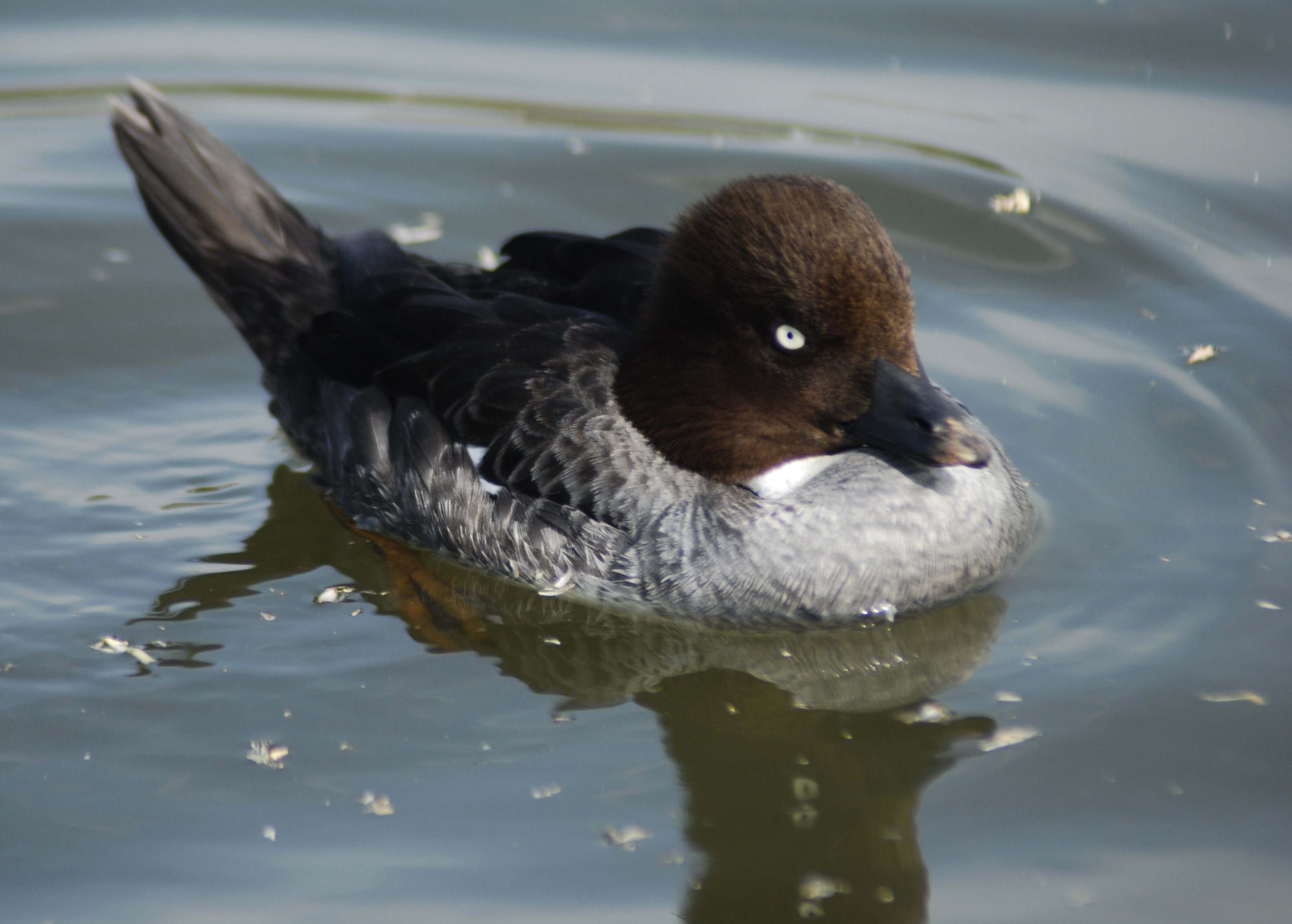 Female goldeneye (Bucephala clangula)